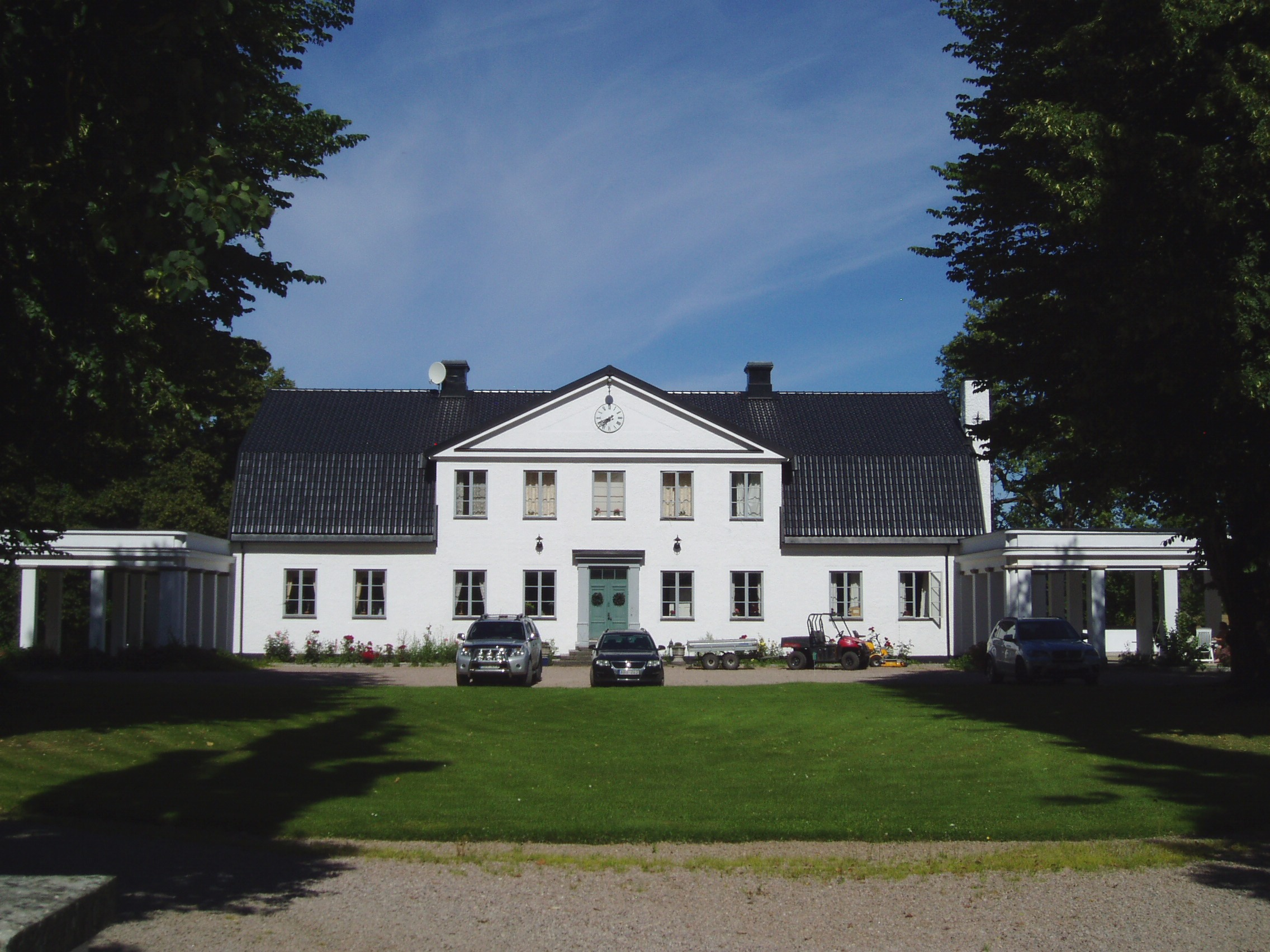 Blombacka mansion, Skara Municipality, Sweden